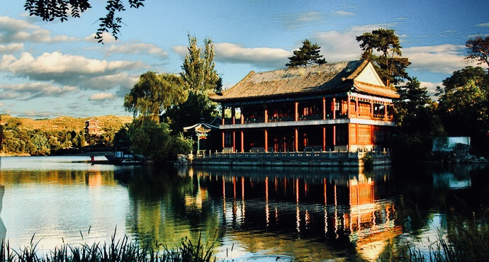 The Mountain Resort，Summer Palace in Chengde